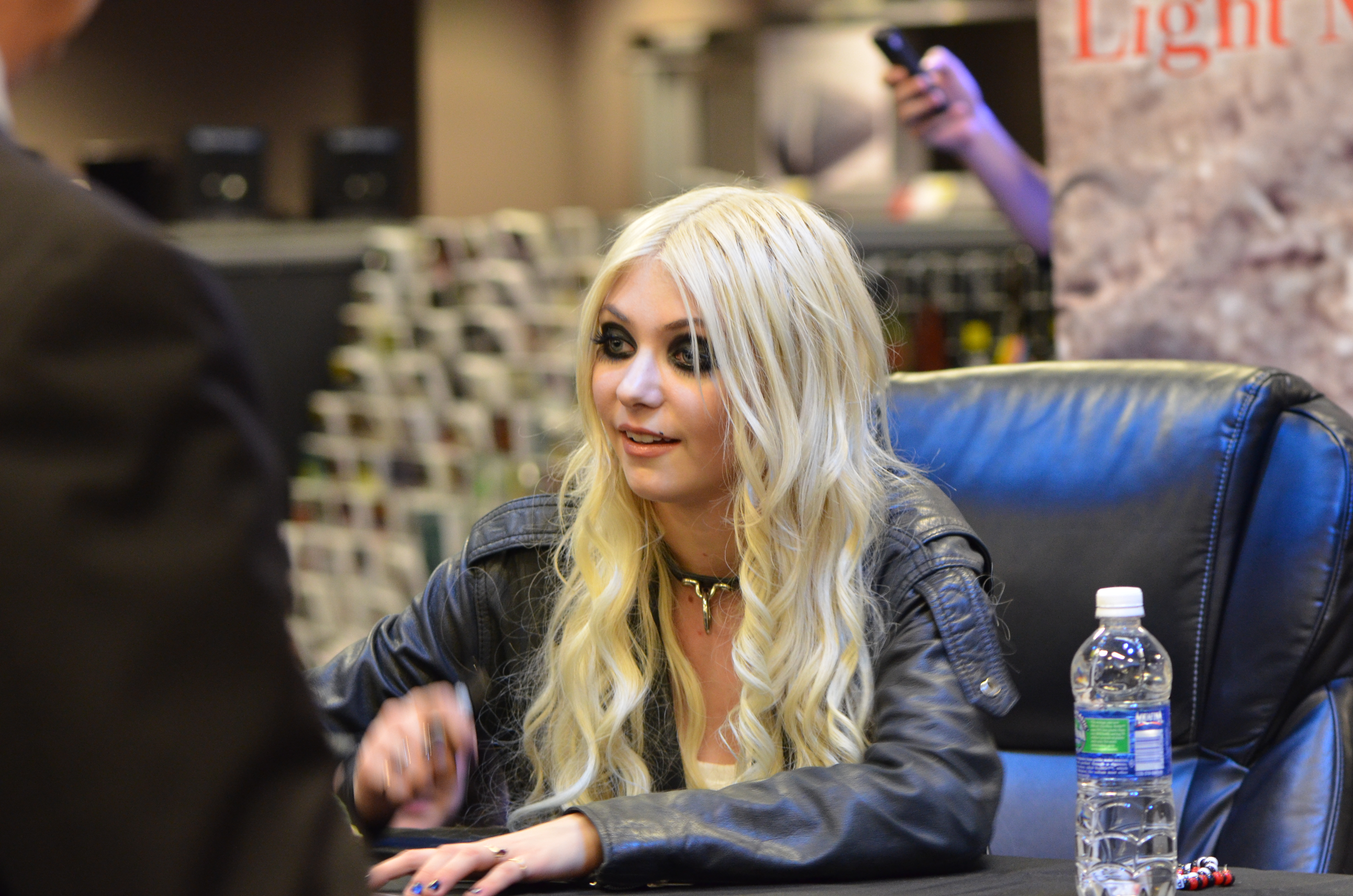 Taylor Momsen on the Light Me Up Tour in April 2011. Nikon D7000 + Nikon 105mm f/2.8 VR